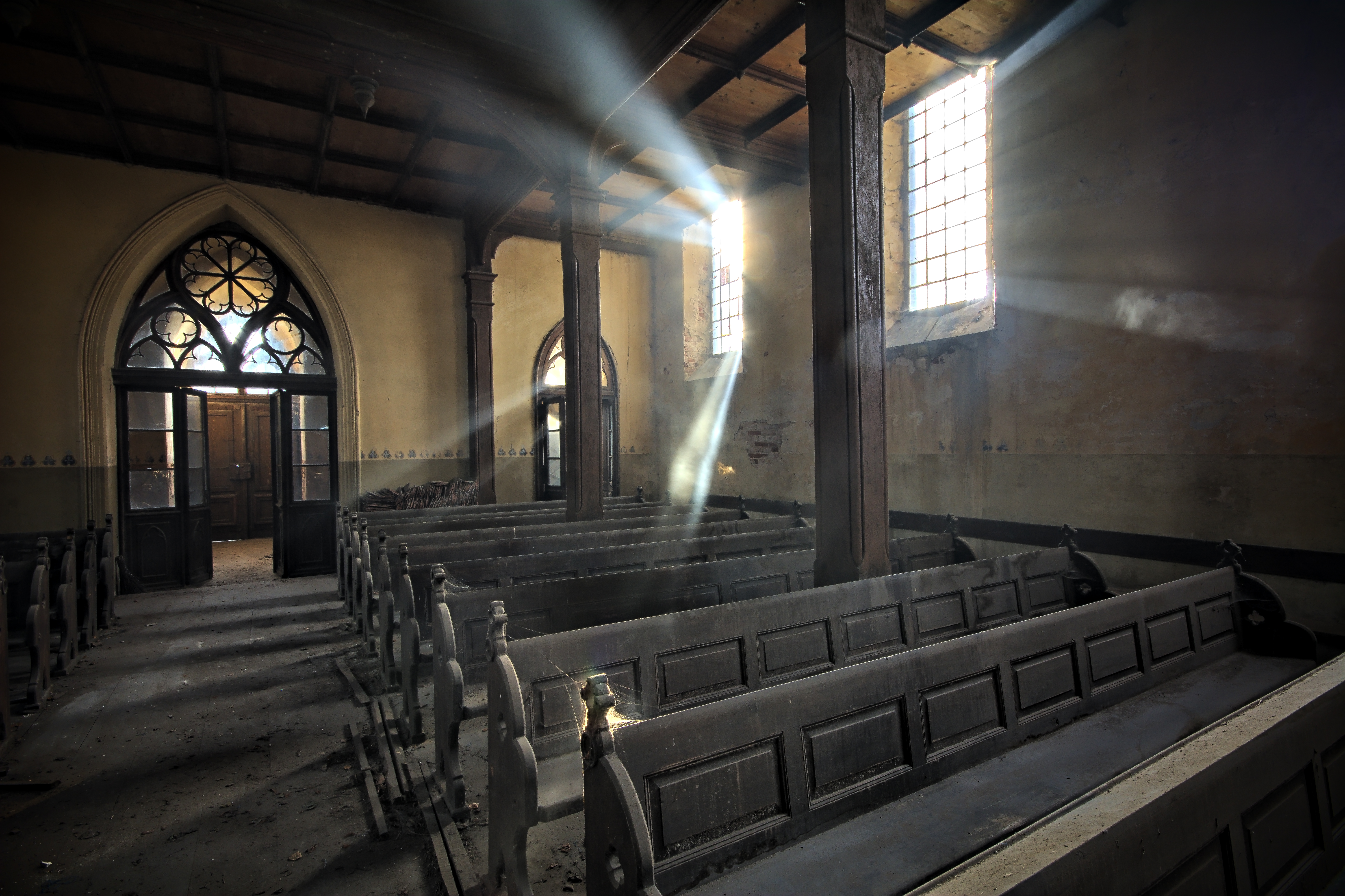 Interior of the closed Evangelical Church of the Augsburg Confession in Stawiszyn.